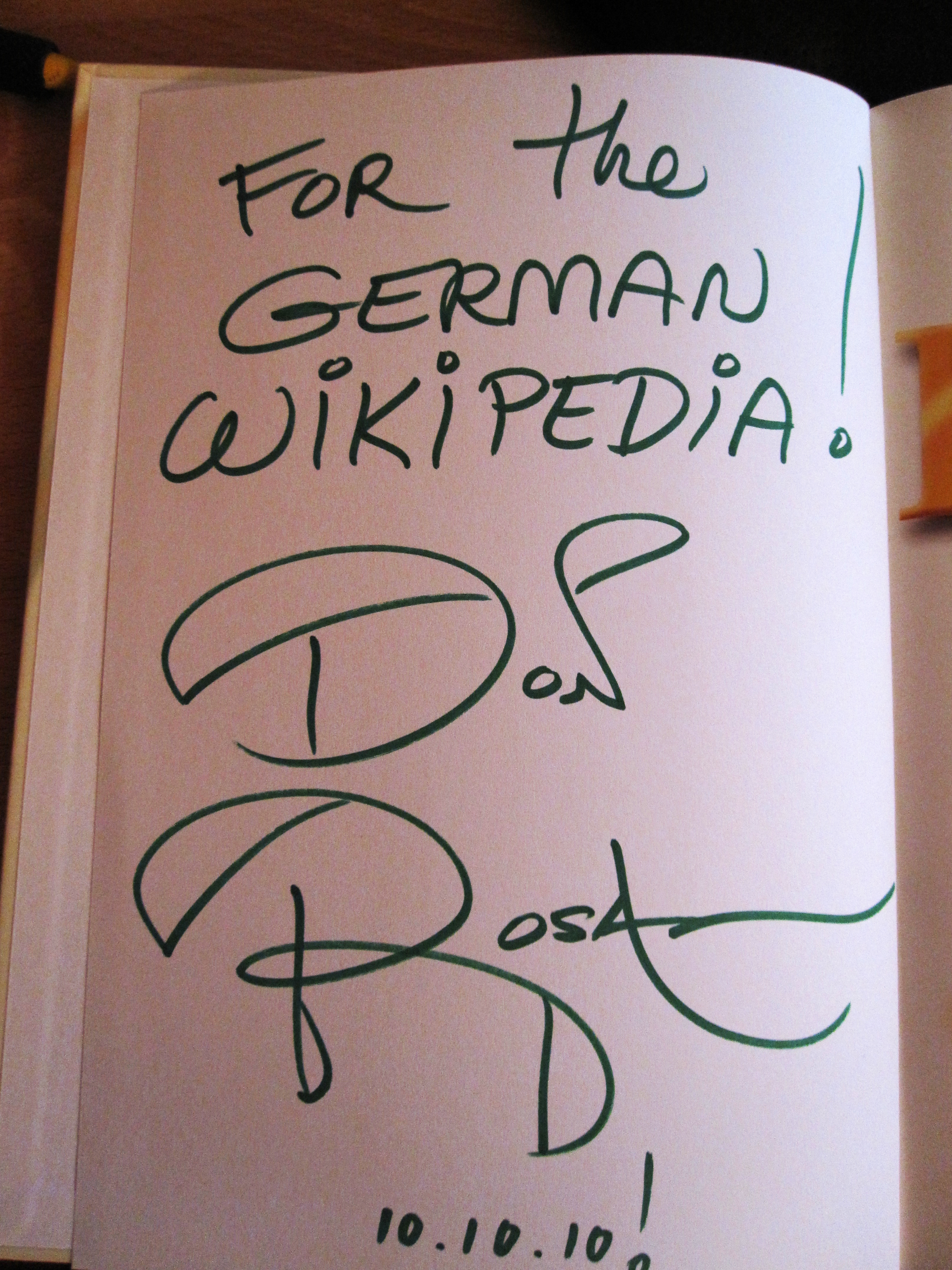 Don Rosa's signature (Frankfurt Book Fair 2010 for German Wikipedia)